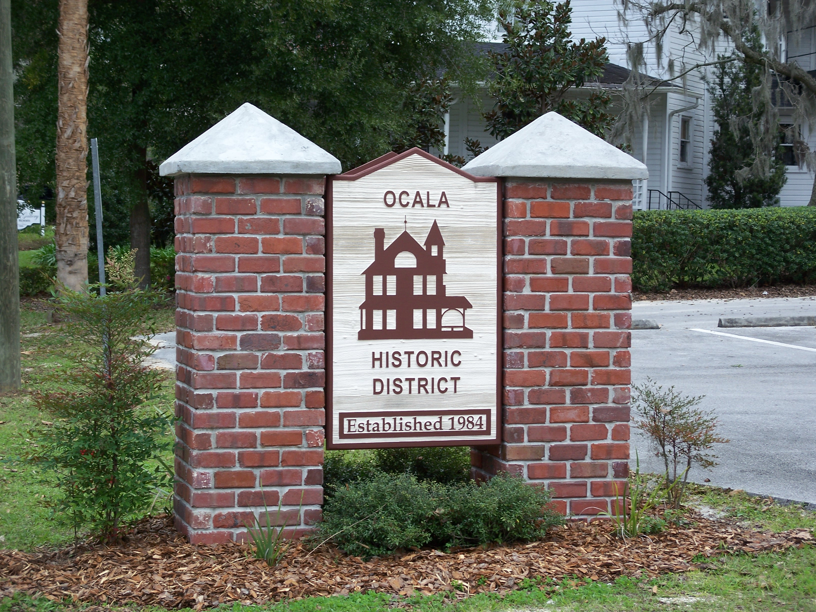 Ocala Historic District sign in Ocala, Florida